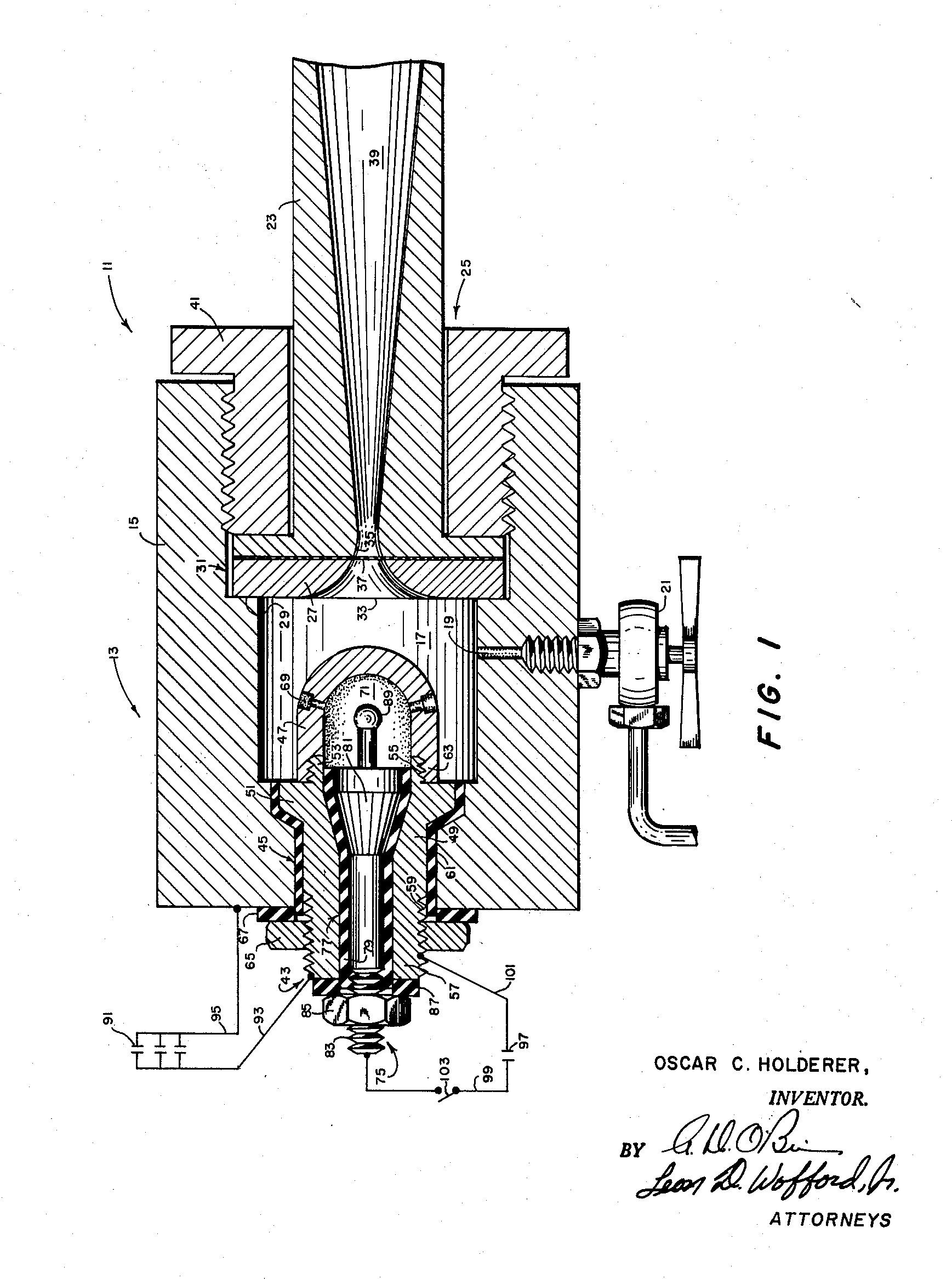 Patent application drawing of an Electric arc driven wind tunnel